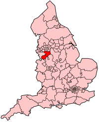 Map showing location of Cheshire East Unitary Authority (effective 1st April 2009) in England.